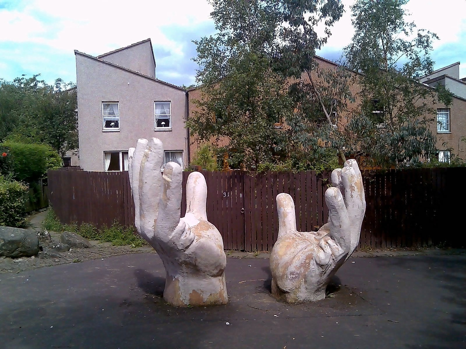 Lange Hands in Collydean